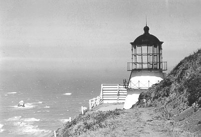 Old Cape Mendocino Lighthouse — in its original location (pre-1998) on Cape Mendocino, Humboldt County, California.